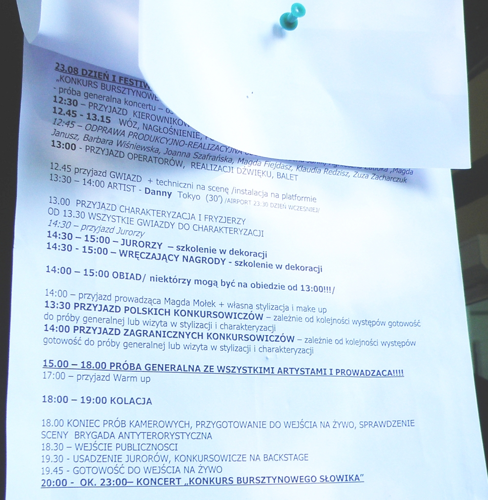 Poland, Sopot, Forest Opera